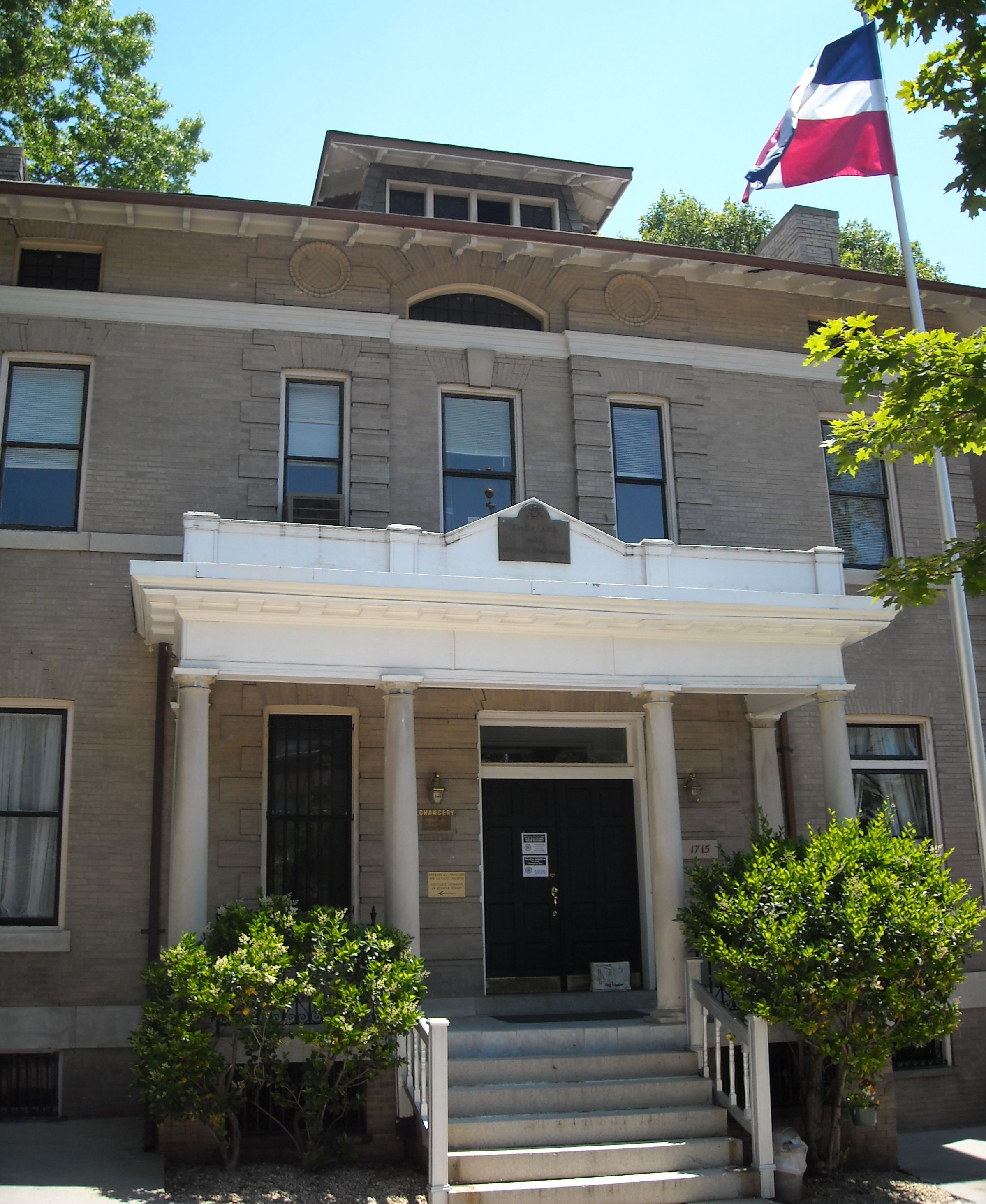 Embassy of the Dominican Republic to the United States. Located in Washington, D.C.